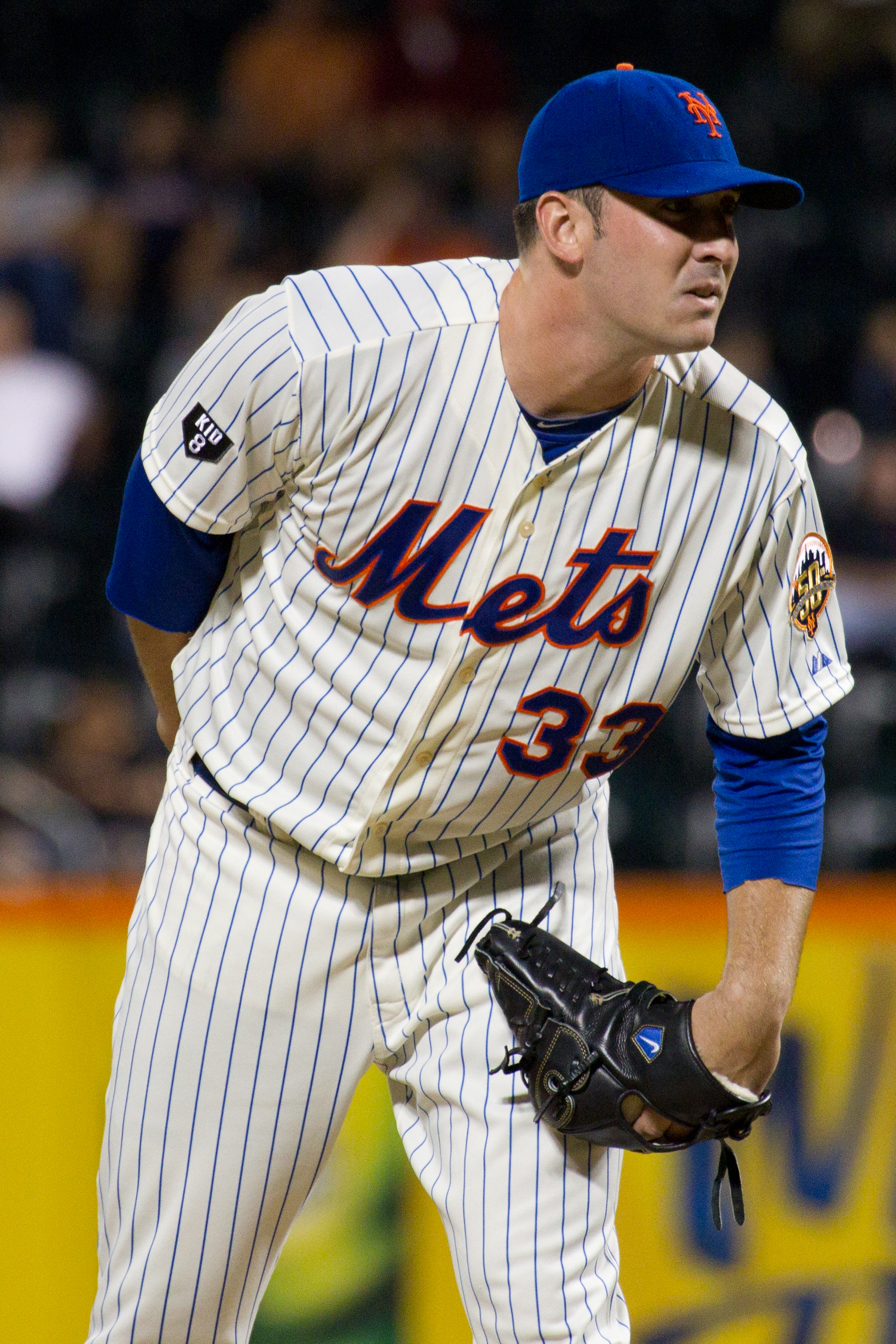 Matt Harvey at Citifield in 2012.